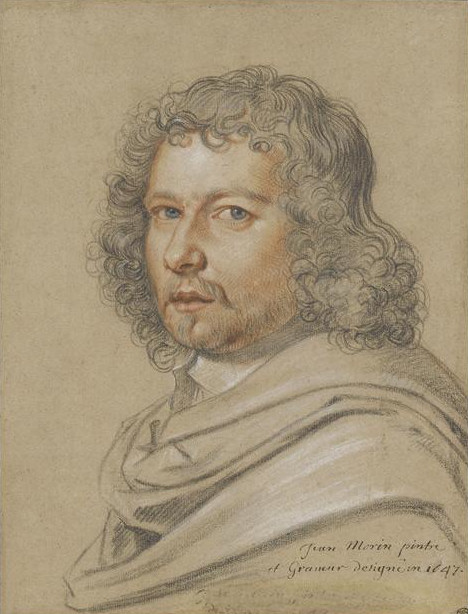 Portrait of French engraver Jean Morin